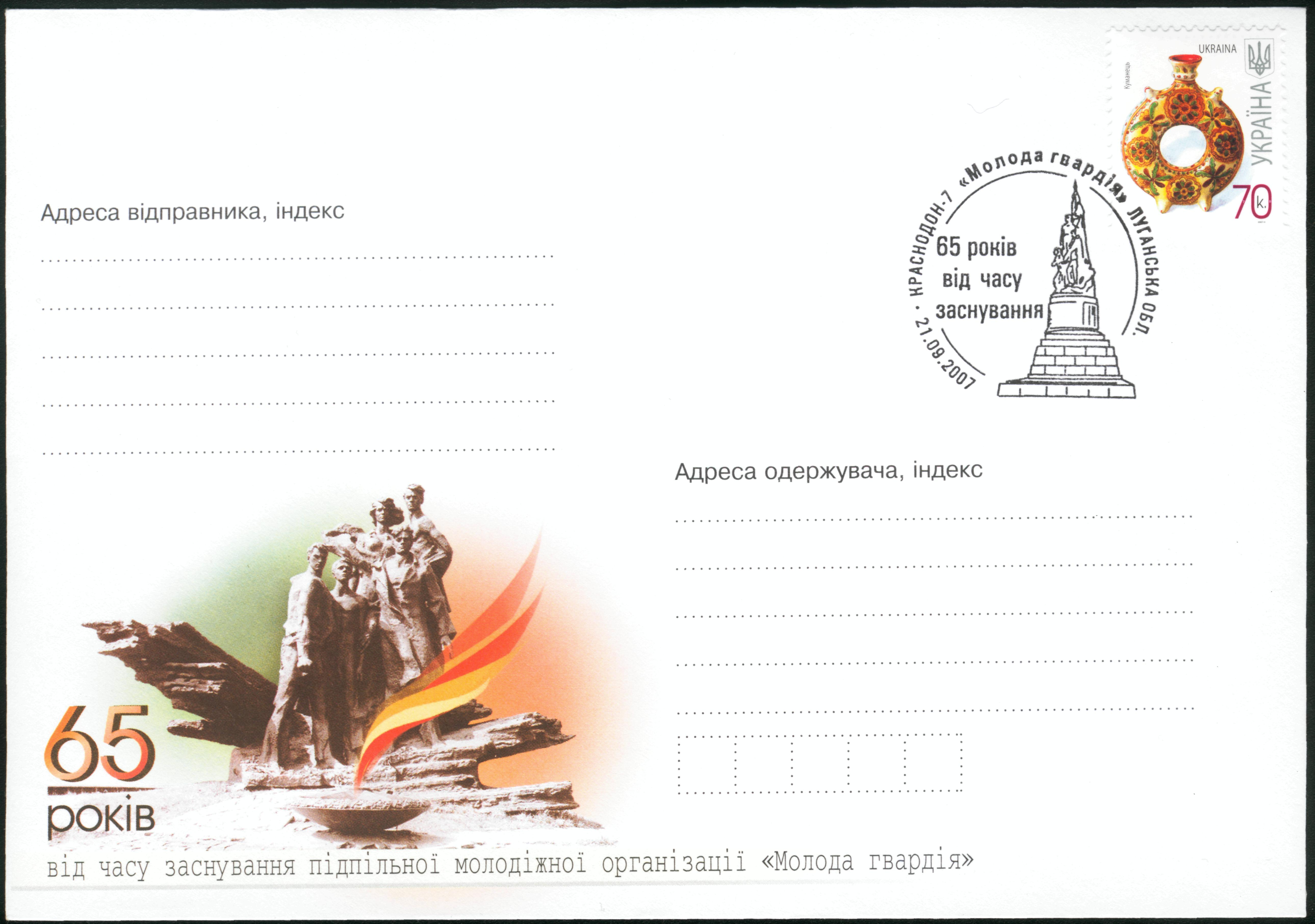 Young Guardy Organization WWII, Krasnodon, USSR. Cover of Ukraine devoted to the 65th anniversary of Young Guardy Organization, with an standart postage stamp and a commemorative postmark of Krasnodon, 21/09/2007.